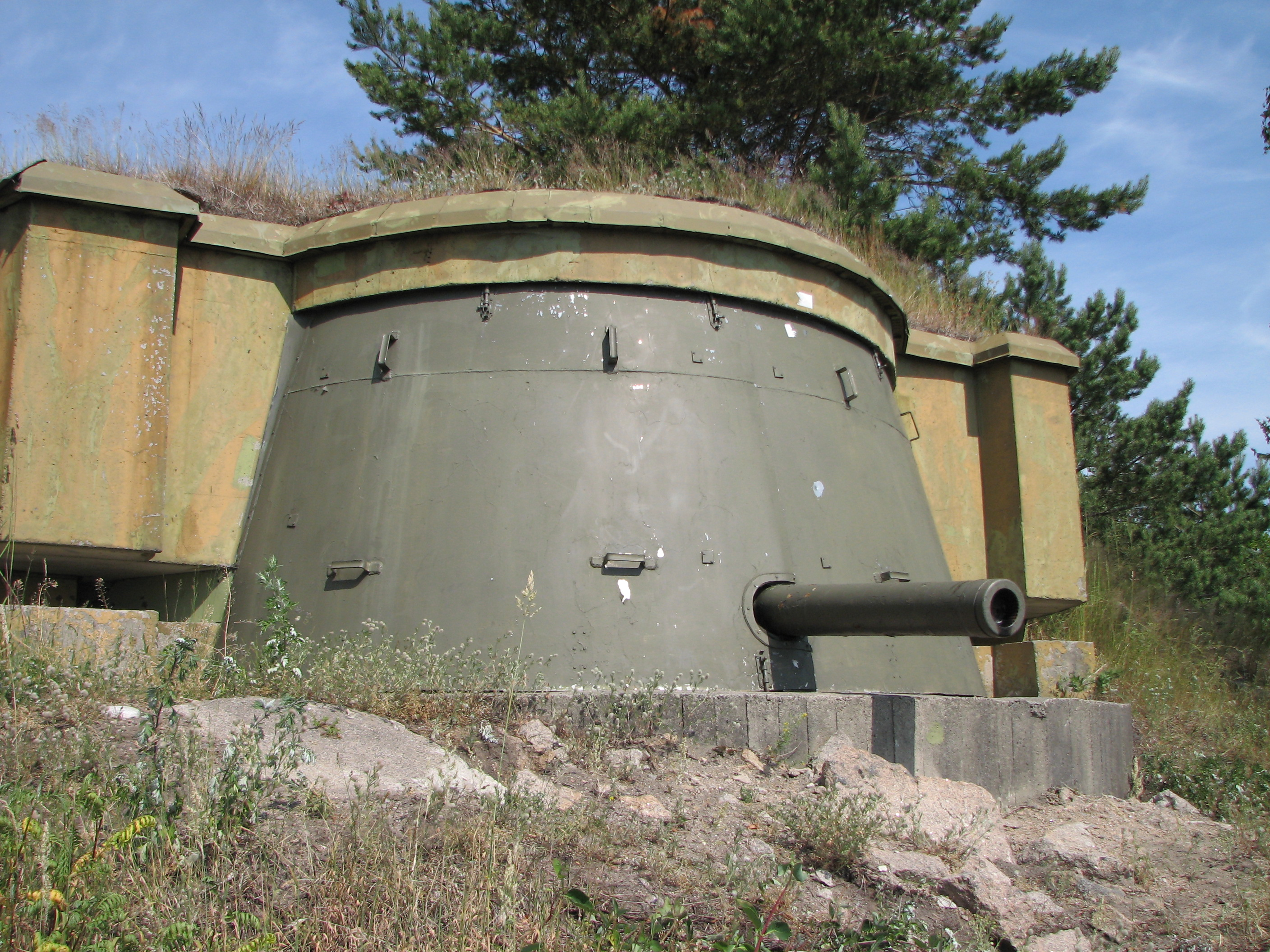 10,5 cm SKC/32 cannon at Kjøkøy Fortress, Fredrikstad, Norway